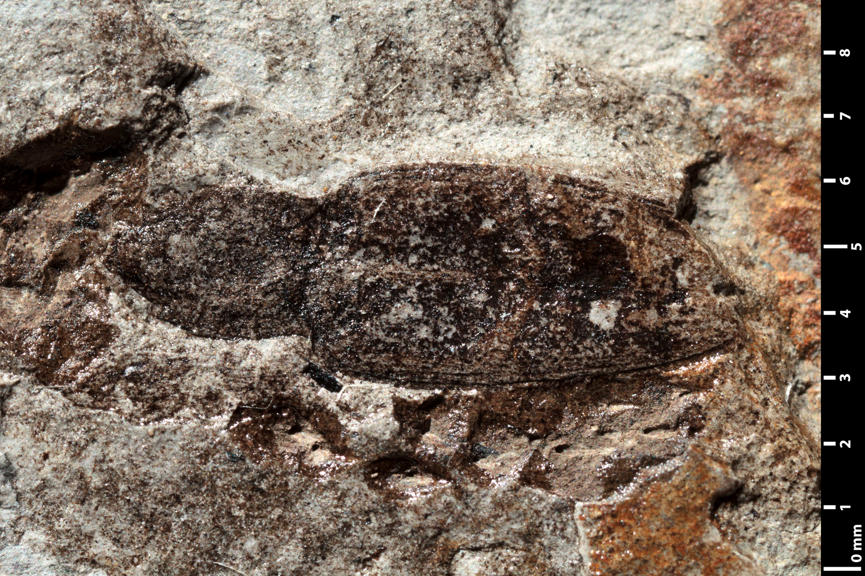 The Lixus ligniticus holotype part specimen with direct lighting. Thanetian, Paleocene; Menat Formation, Puy-de-Dôme, France Muséum national d'Histoire naturelle specimen MNHN.F.A38843